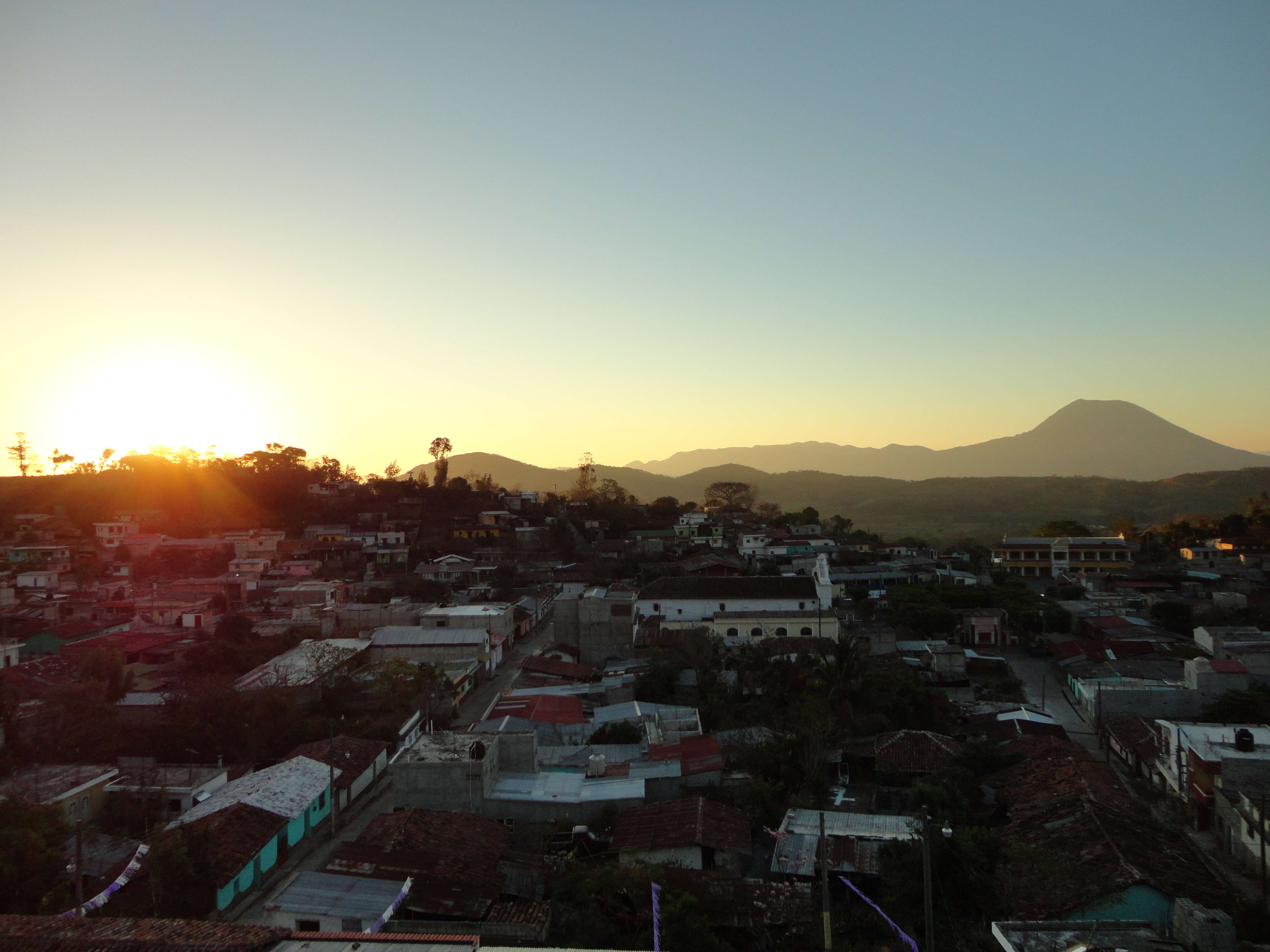 Amanecer captura el 30 de marzo del 2013, en Yupiltepeque, Jutiapa